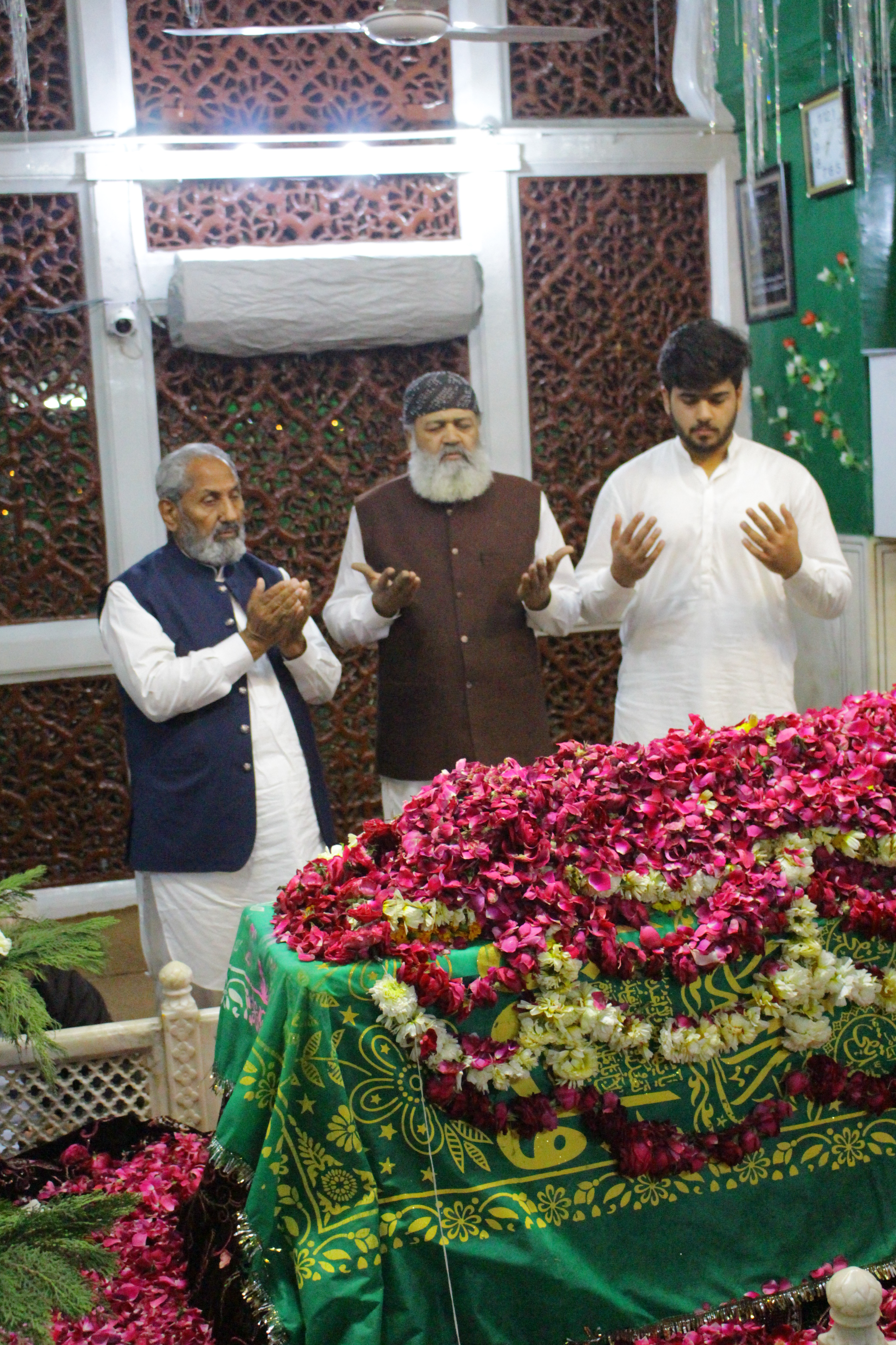 Sajjada Nasheed Hazrat Mian Mir